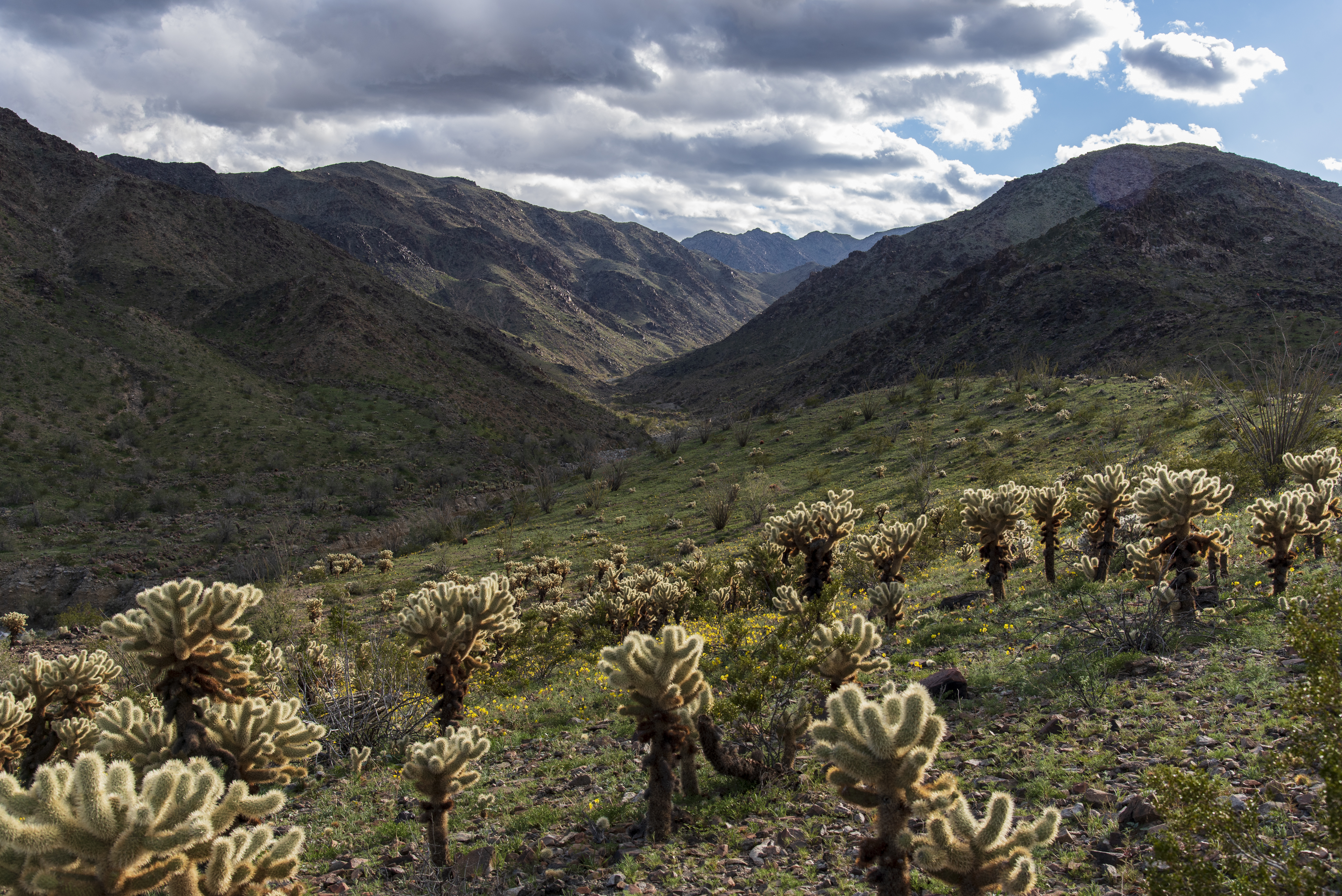 The Corn Springs Campground is located deep in a canyon of the Chuckwalla Mountains. Situated adjacent to a stand of California fan palms. This oasis supports abundant wildlife and is an important stopping place for migratory birds. Corn Springs was a major occupation site of prehistoric Native American Indian groups. The petroglyphs at Corn Springs are one of the finest examples of rock art in the Colorado Desert. They display a wide variety of elements and cover a long time span, with the earliest petroglyphs dating as far back as 10,000 years. In addition to being a route for Native American Indians moving east and west, Corn Springs was used by the Chemehuevi Indians who moved into California about 1,100 A.D. These Native American Indians lived in harmony with the desert ecosystem, utilizing many of the native plants. Photo by Kyle Sullivan, BLM.